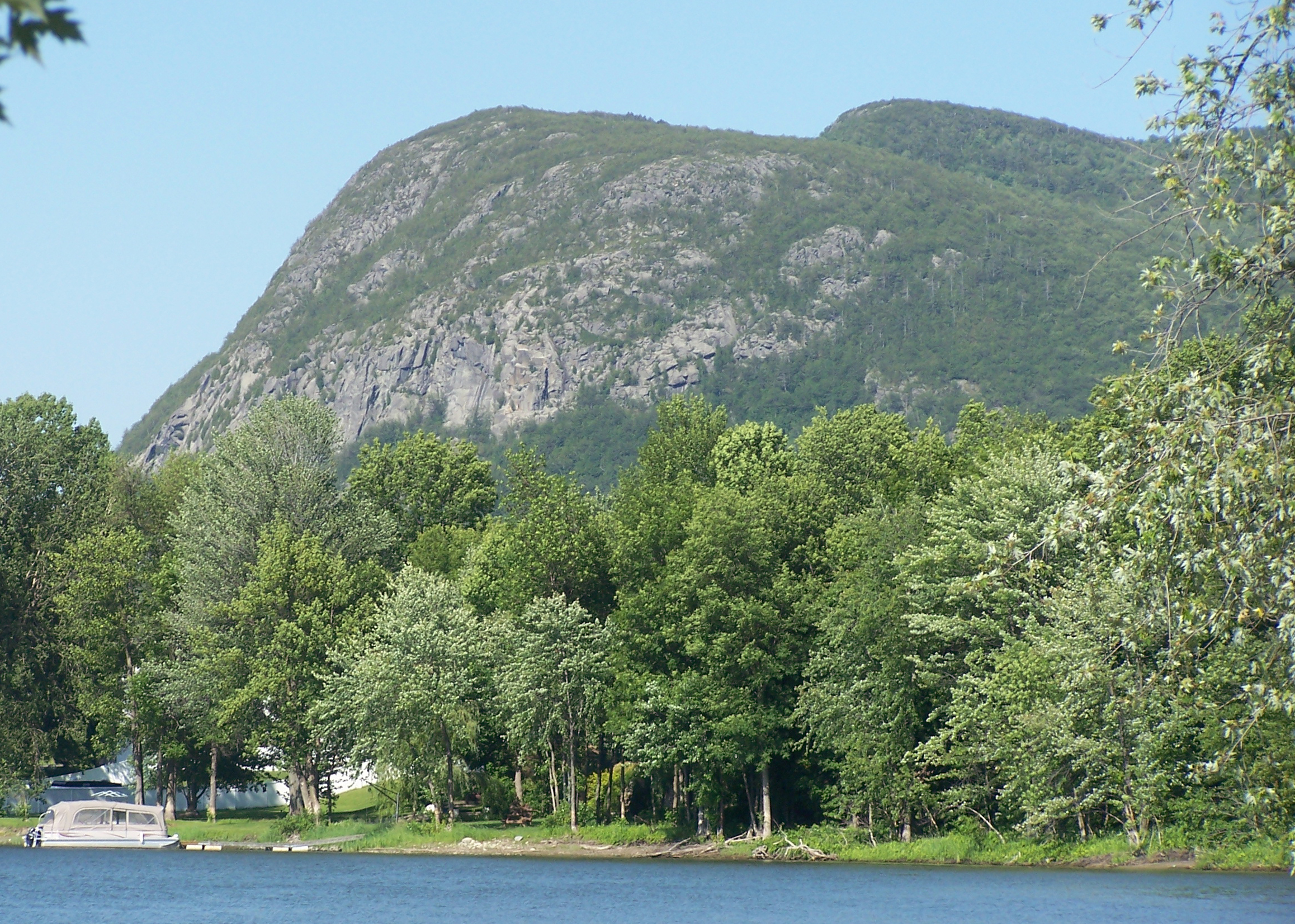 Mont Saint-Hilaire, Quebec : the Dieppe and Rocky summits seen from Otterburn Park (south), with the Richelieu river in the foreground